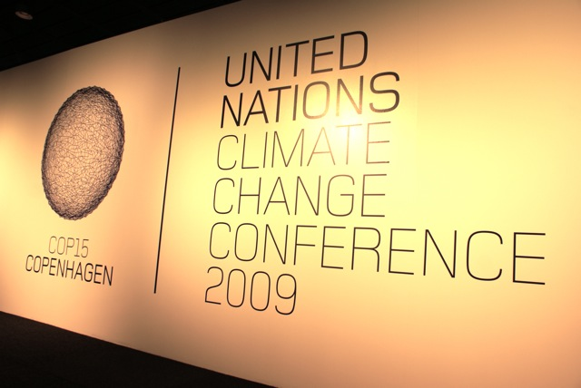 Our first steps in Copenhagen. Couldn't be more excited, anxious, and focused for the days ahead.